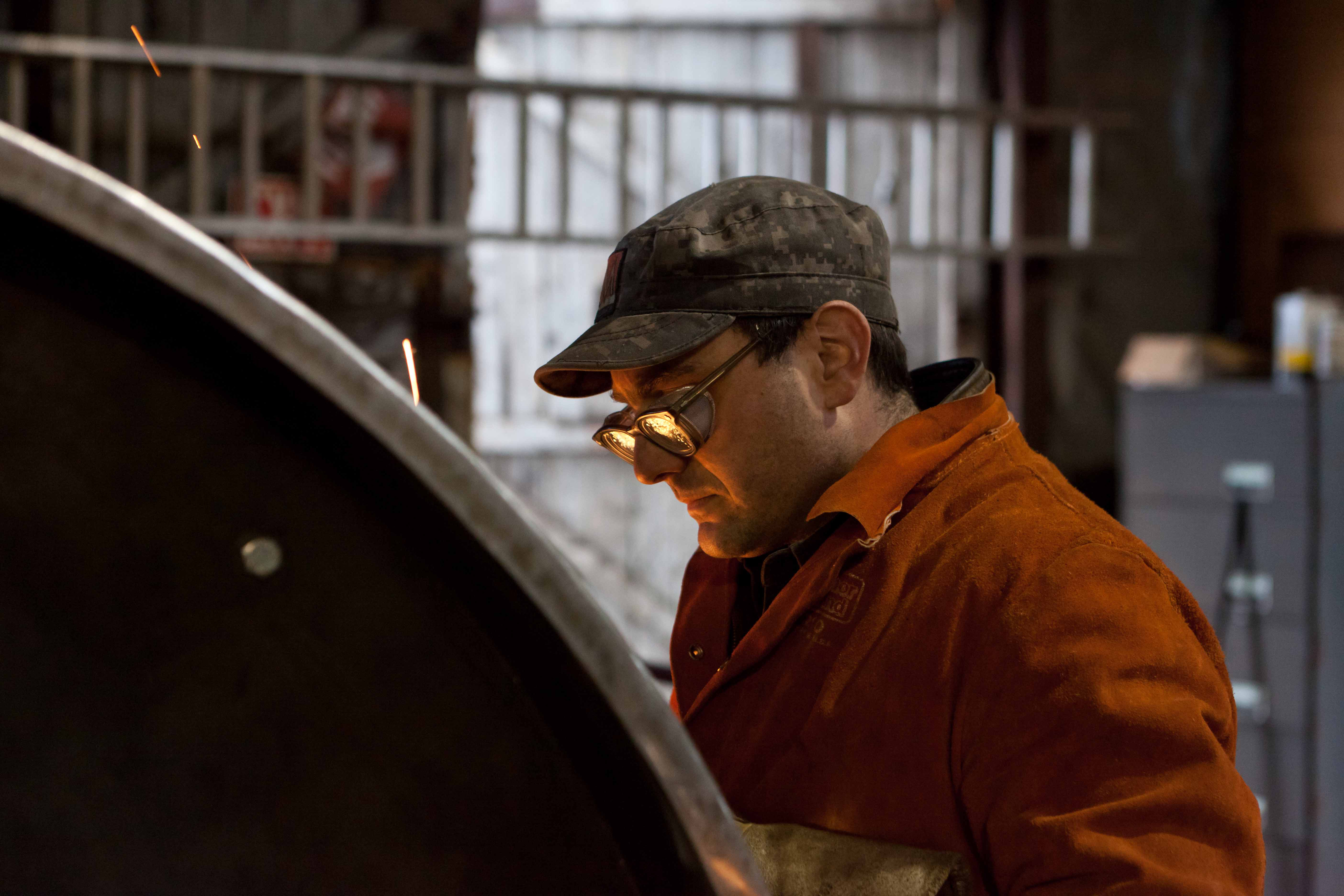 Artist portrait by photographer Sam Cornwall.